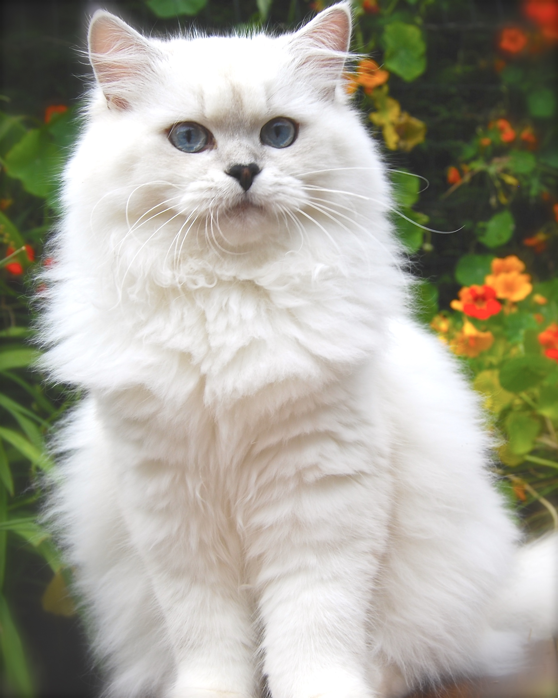 Belle Ayr Cattery